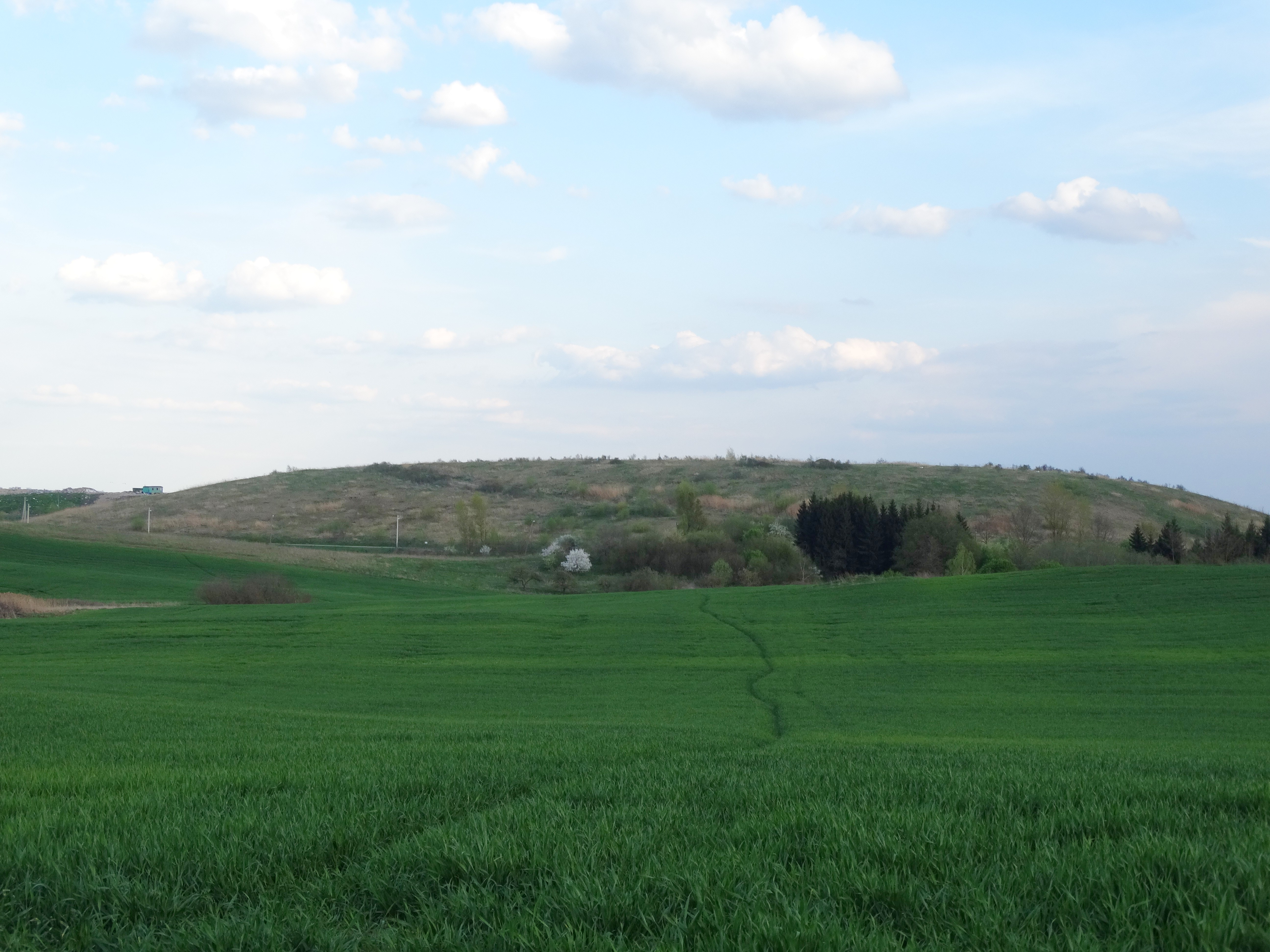 Landfill in Lapės, Kaunas district, Lithuania